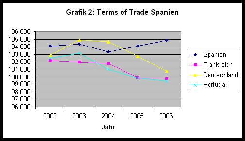 Terms of Trade Spaniens